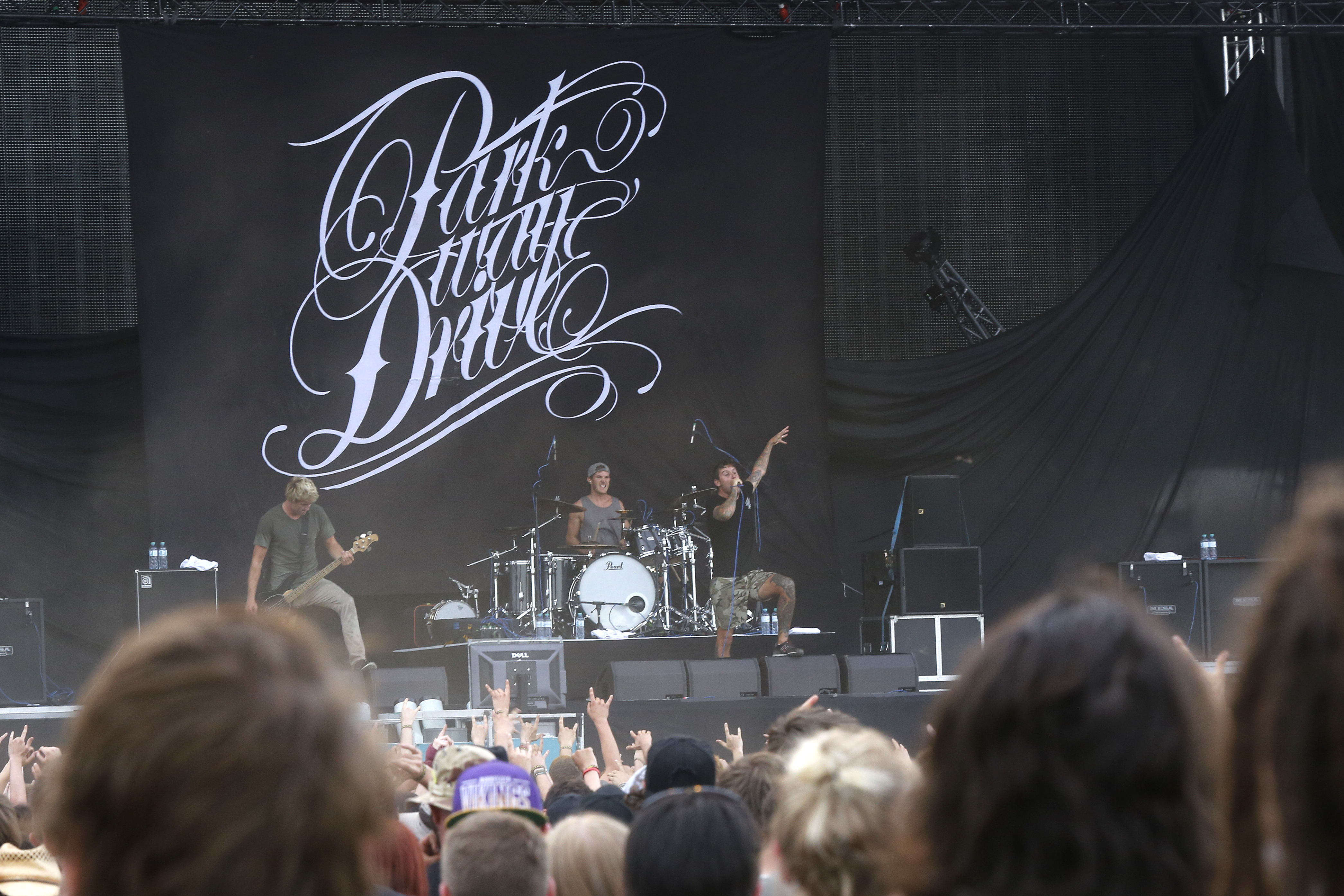 Parkway Drive at Nova Rock-Festival 2013.